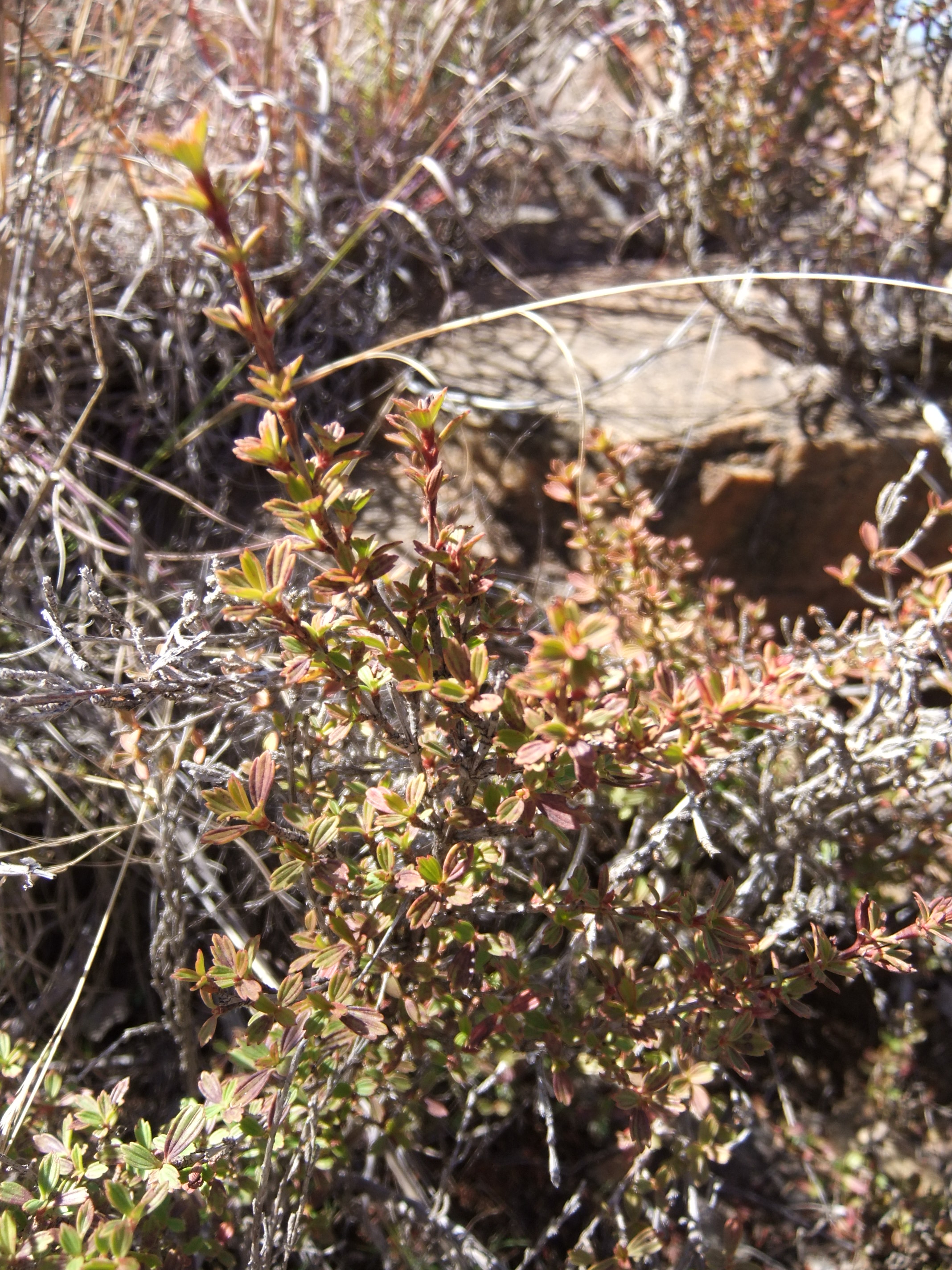 Myrothamnus flabellifolius, Mountain Sanctuary Park, Magaliesberg, South Africa